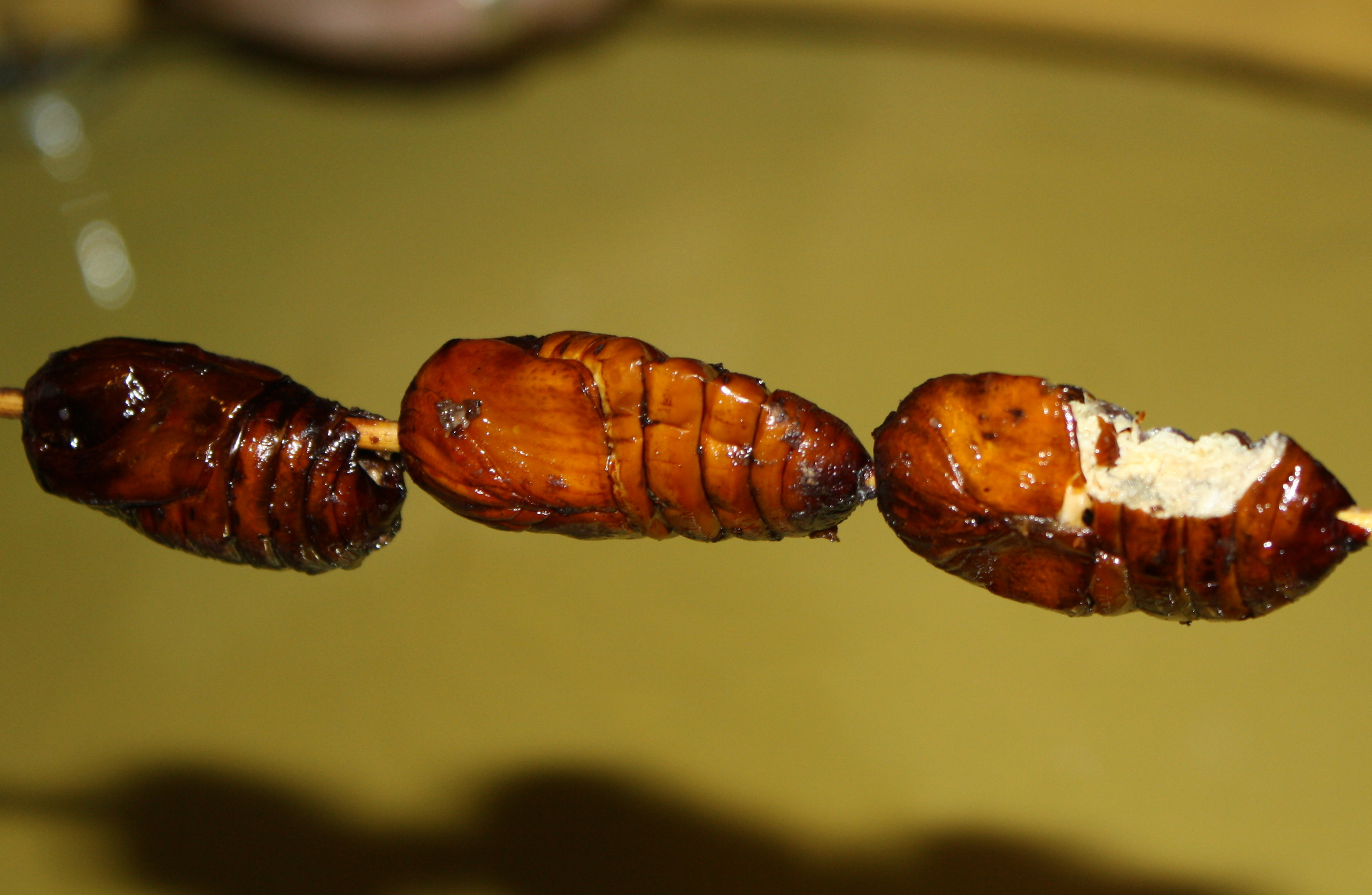 Fried silkworm (probably tussah oak silkworm) larvae sold by a street vendor in Jinan, China. They swell and turn brown when fried; the rightmost specimen has a bite taken out of it. The exterior is a bit tough and chewy (salted and greasy), while the inside is somewhat bland with a tofu-like consistency.